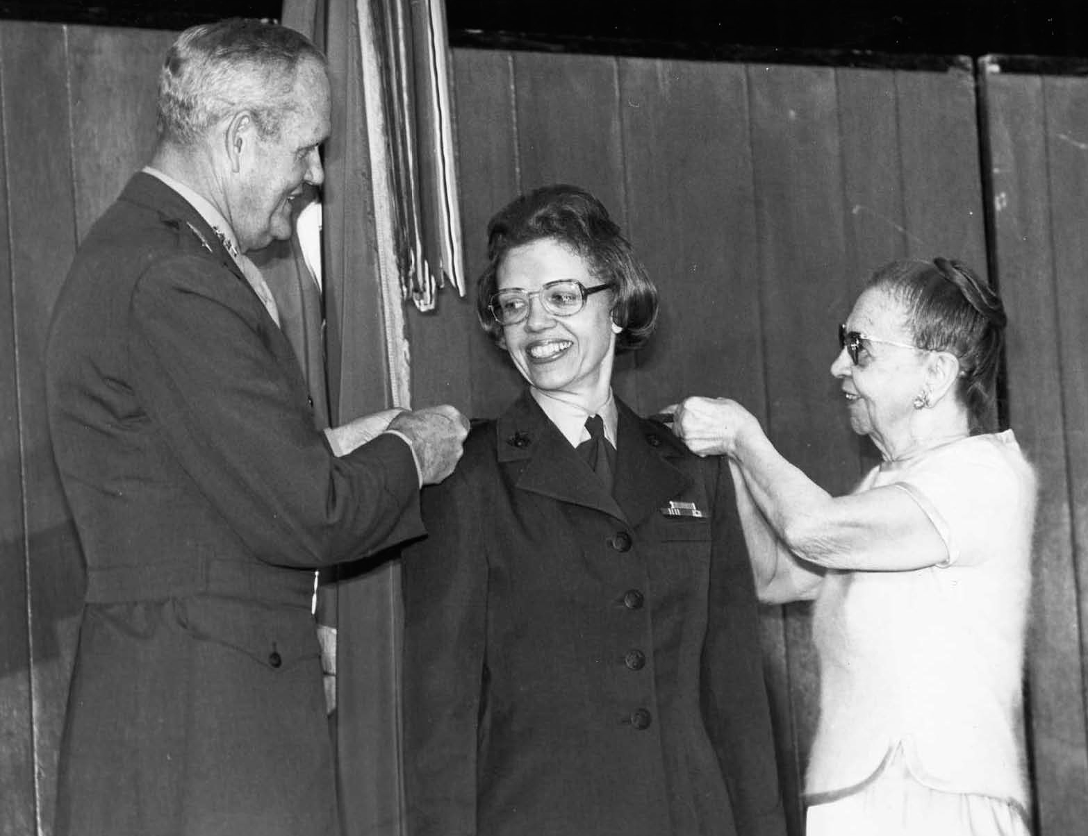 Arlington, Va. - Gen. Louis H. Wilson, commandant of the Marine Corps, and Anne Brewer pin a star to each should during the promotion ceremony for Brig. Gen. Margaret A. Brewer May 11, 1978. She was the first female Marine to be promoted to brigadier general.